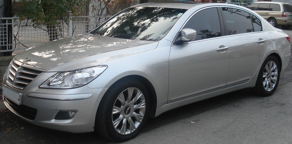 Hyundai Genesis